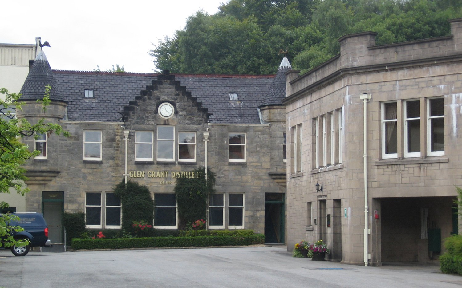 Glen Grant Distillery